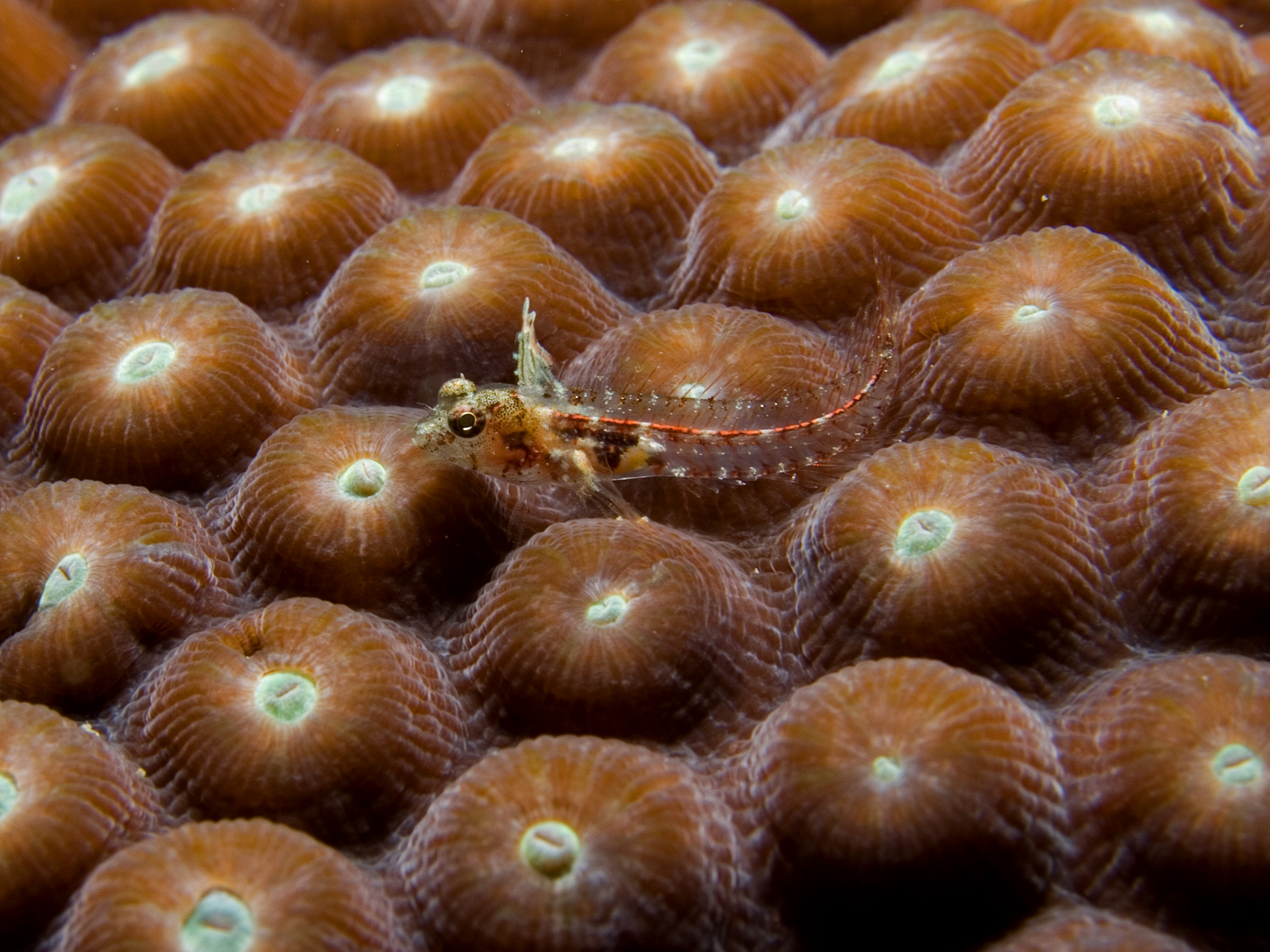 Emblemariopsis carib (Caribbean Flagfin Blenny). See the article in the Journal of the Ocean Science Foundation on this newly described species .